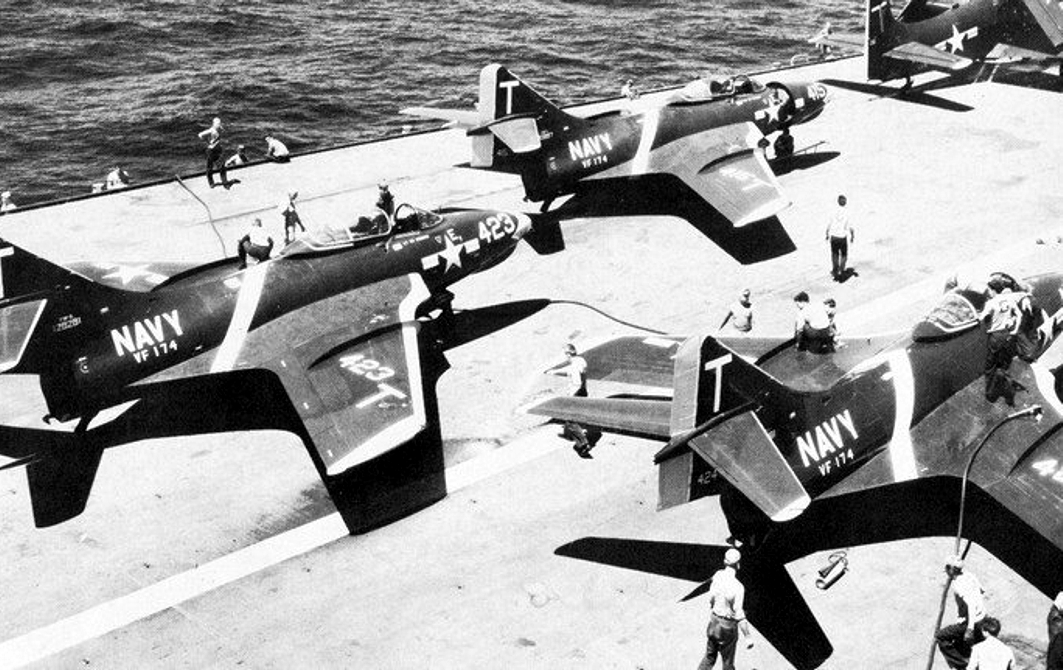 U.S. Navy Grumman F9F-6 Cougars of Fighter Squadron VF-174 "Hell Razors" aboard the aircraft carrier USS Midway (CVA-41). VF-174 was assigned to Carrier Air Group 1 (CVG-1), during Midway´s circumnavigation of the globe between 27 December 1954 and 14 July 1955.